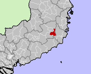 Don Duong District, Lam Dong Province, Vietnam.